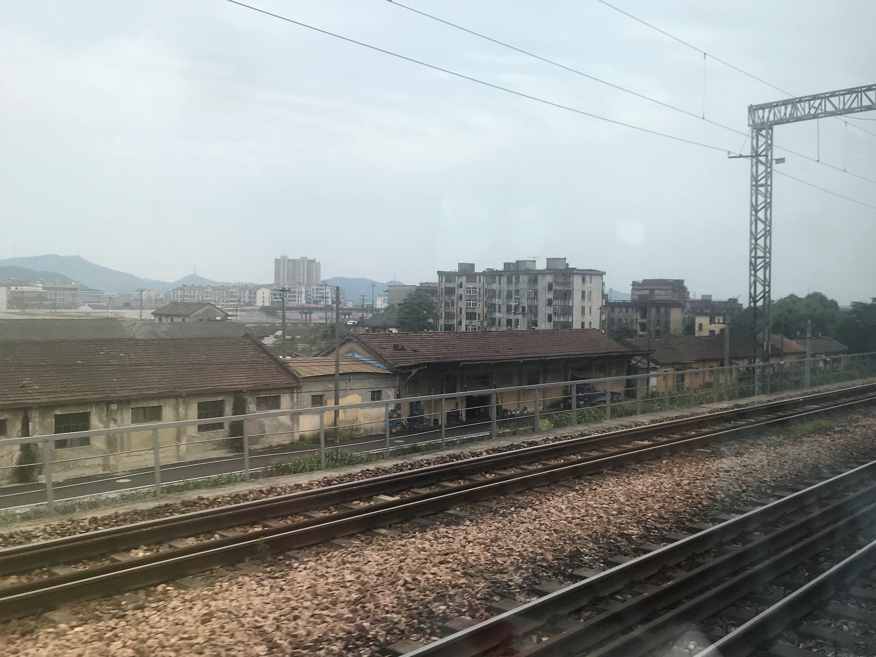 201907 Tracks and Old Site of Meichi Station